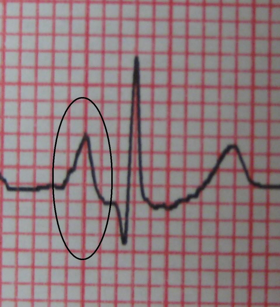 Right atrial enlargement. Note P wave height is greater than 2.5 mm.